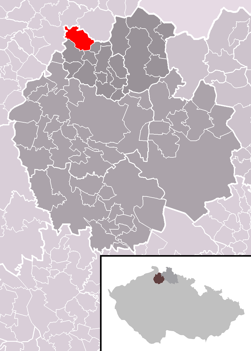 Location of Prysk municipality within Česká Lípa District and administrative area of Nový Bor as a Municipality with Extended Competence.